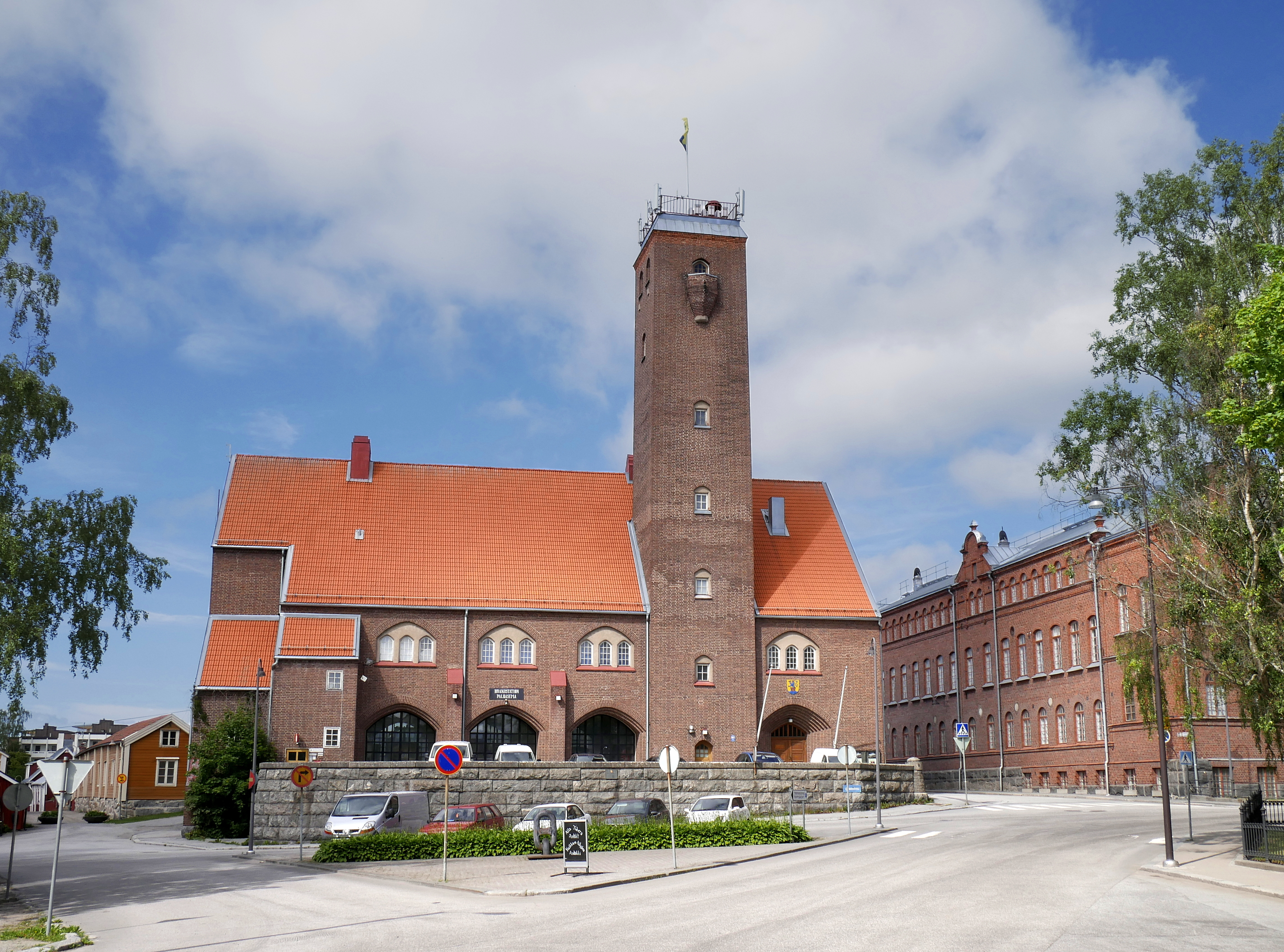 Pietarsaari old fire station.